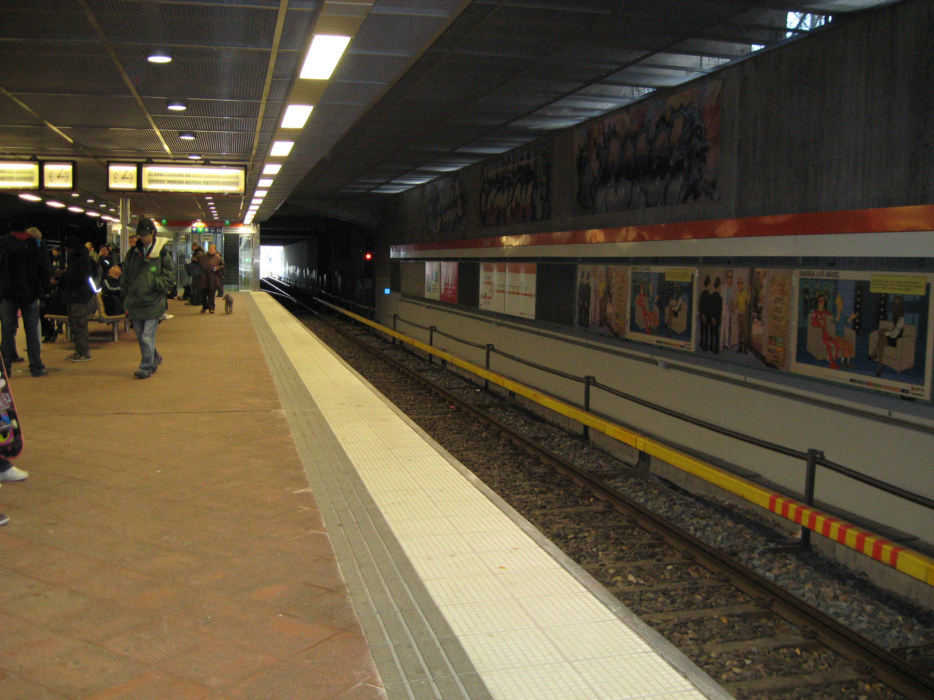 Kontula metro station